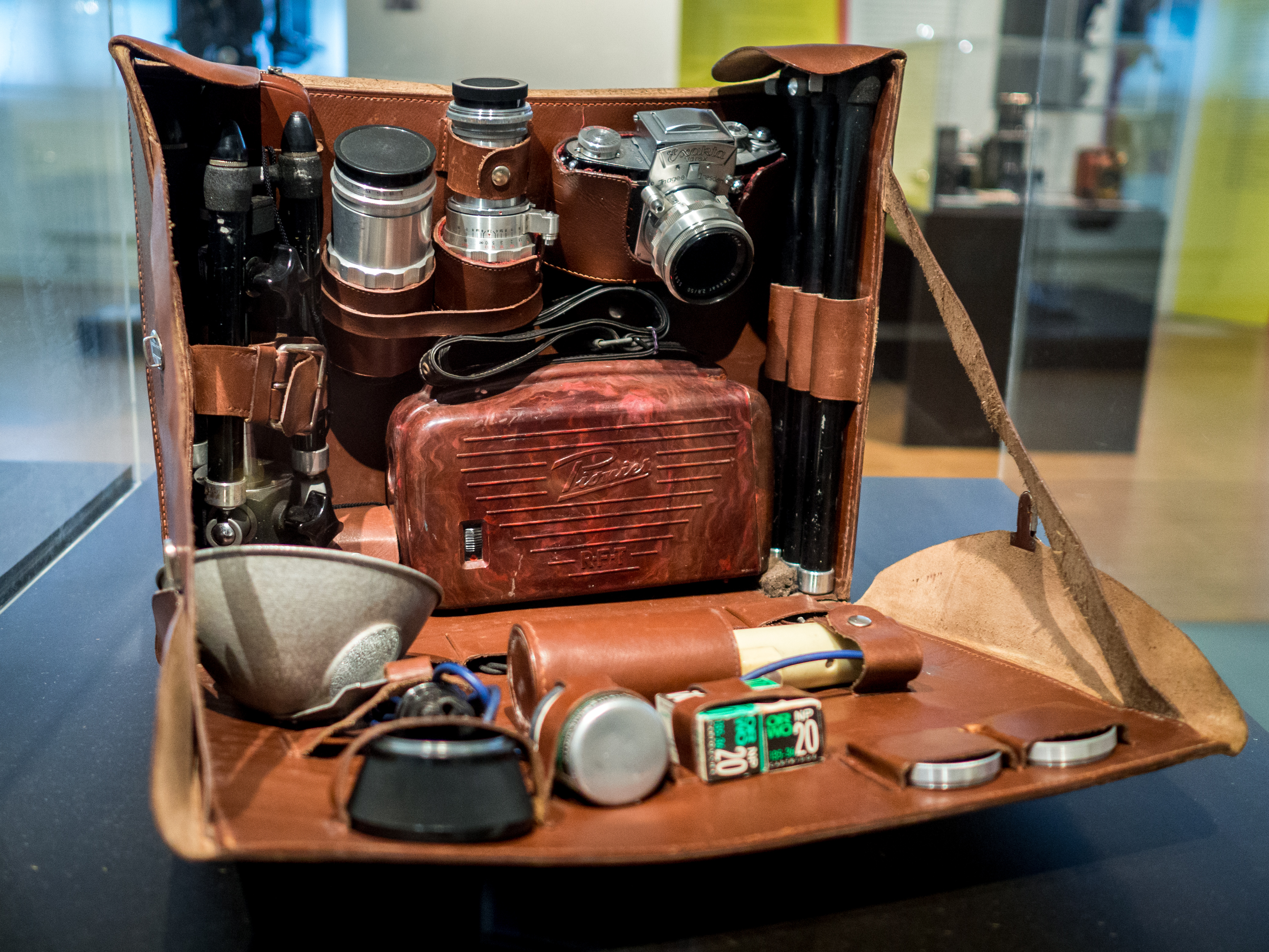 Camera bag the German People's Police (GDR), 1955 with accessories